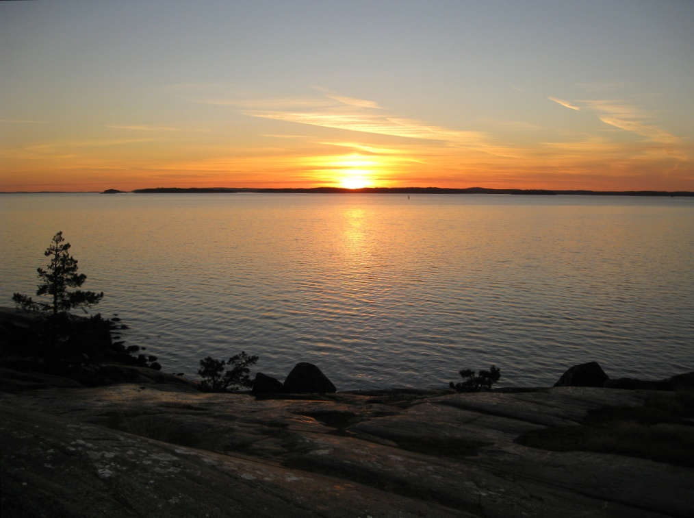 Sunset in Ruissalo island, Turku, Finland